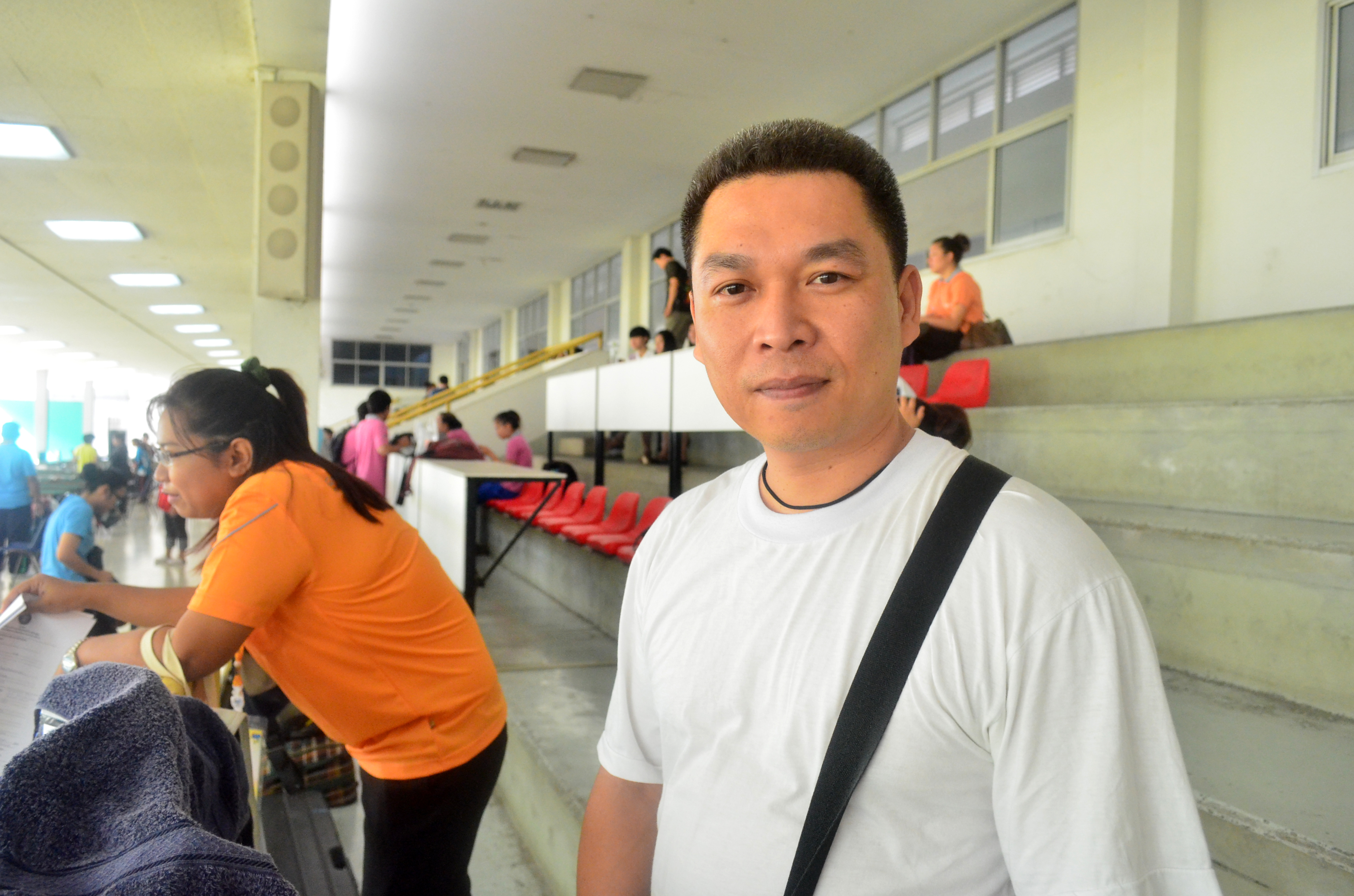 Tevarit Majchacheep